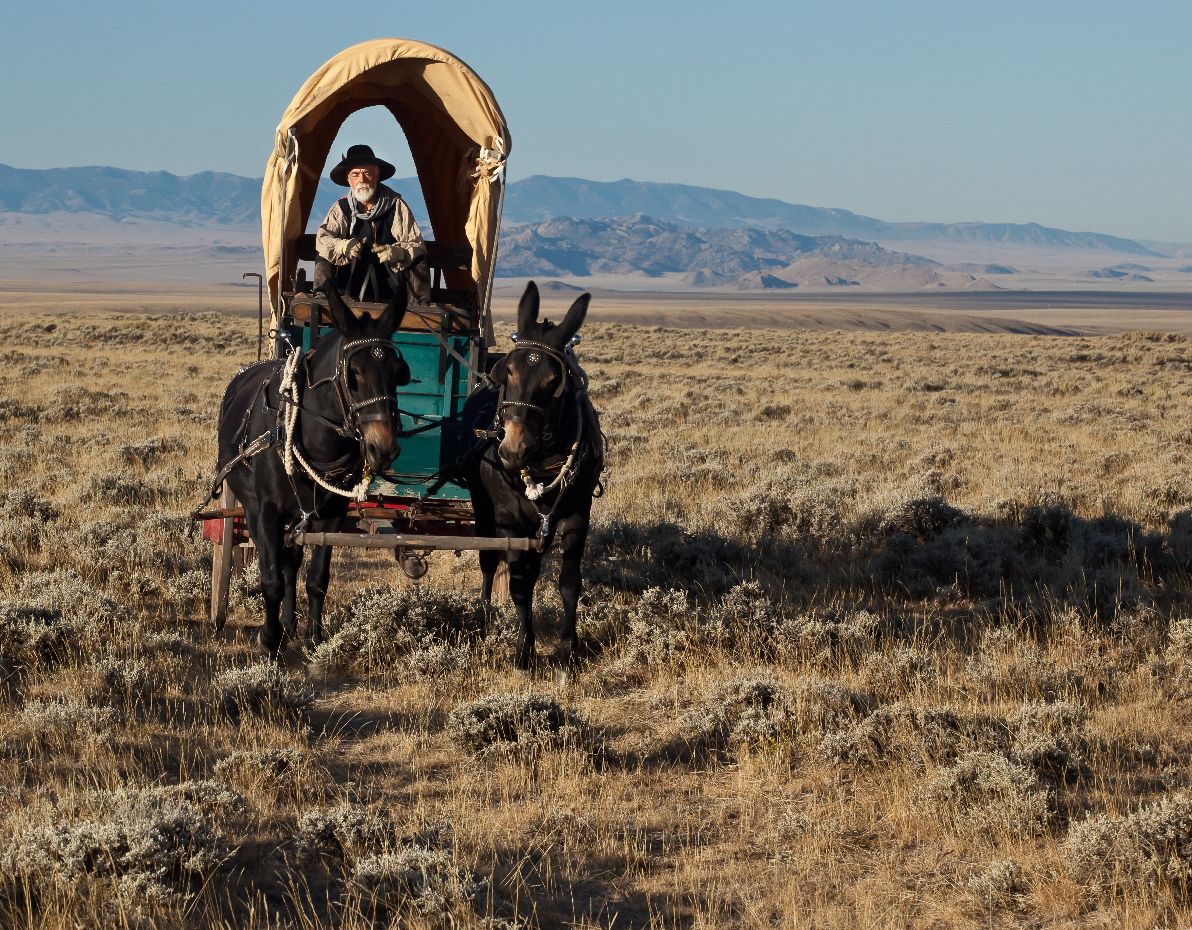 Section of the Oregon Trail Blue Mountain Crossing Segment — of the pioneer Oregon Trail in Wyoming. Protected within a Bureau of Land Management area in Wyoming. Oregon National Historic Trail — National historic trails can take us back, returning us literally and symbolically to a point of departure in geography and time. Who among us has not wondered what it was like for America’s pioneers to lie on the open ground of the western high plains on a starlit night and to hear wolves howl in the distance? To walk in the footsteps of these men and women today is to glimpse their experience and to feel their purpose and courage. National historic trails help us recreate this unique chapter in American history when, starting more than 170 years ago, some 500,000 emigrants made their way overland to the far western edge of the continent. Their determination resulted in 12 new states joining the Republic between 1840 and 1890, all west of the Mississippi River. Congress designates national historic trails “to protect historic landscapes and inform our curiosity about the past.” Visitors to the Oregon National Historic Trail have more than 350 miles to explore on Wyoming public lands managed by the Bureau of Land Management. One pristine stretch extends a full 35 miles entirely on BLM lands—farther than most emigrant parties could walk in a single day. Thanks to the foresight and dedication of preservation-minded citizens and volunteers, the Oregon, Mormon Pioneer, California, and Pony Express routes are all managed as national historic trails. BLM-managed sections are part of the National Landscape Conservation System. The BLM is proud to interpret the great westward migration, and other significant aspects of American history, as caretaker of more miles of national historic trails than any other federal agency.